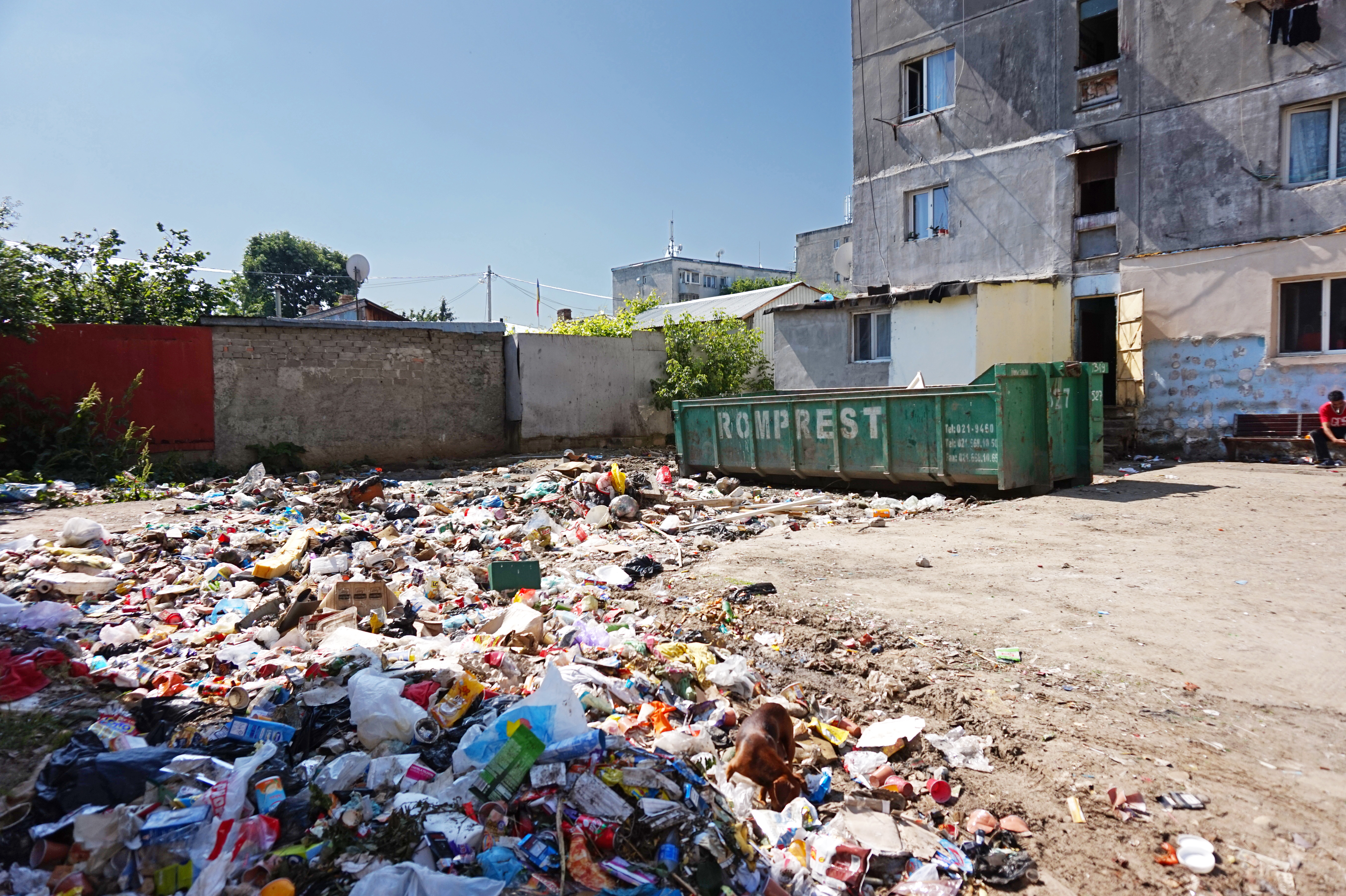 Waste in Ferentari area, Bucharest. This photograph was taken with a Sony Alpha a5000.